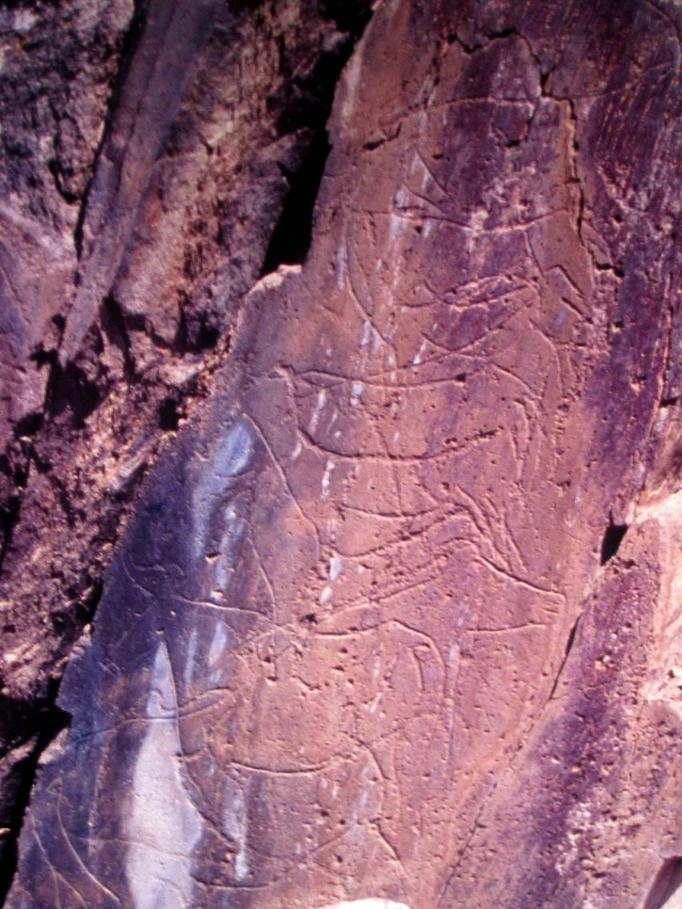 Rock Art – Paleolithic – Foz Côa - Portugal